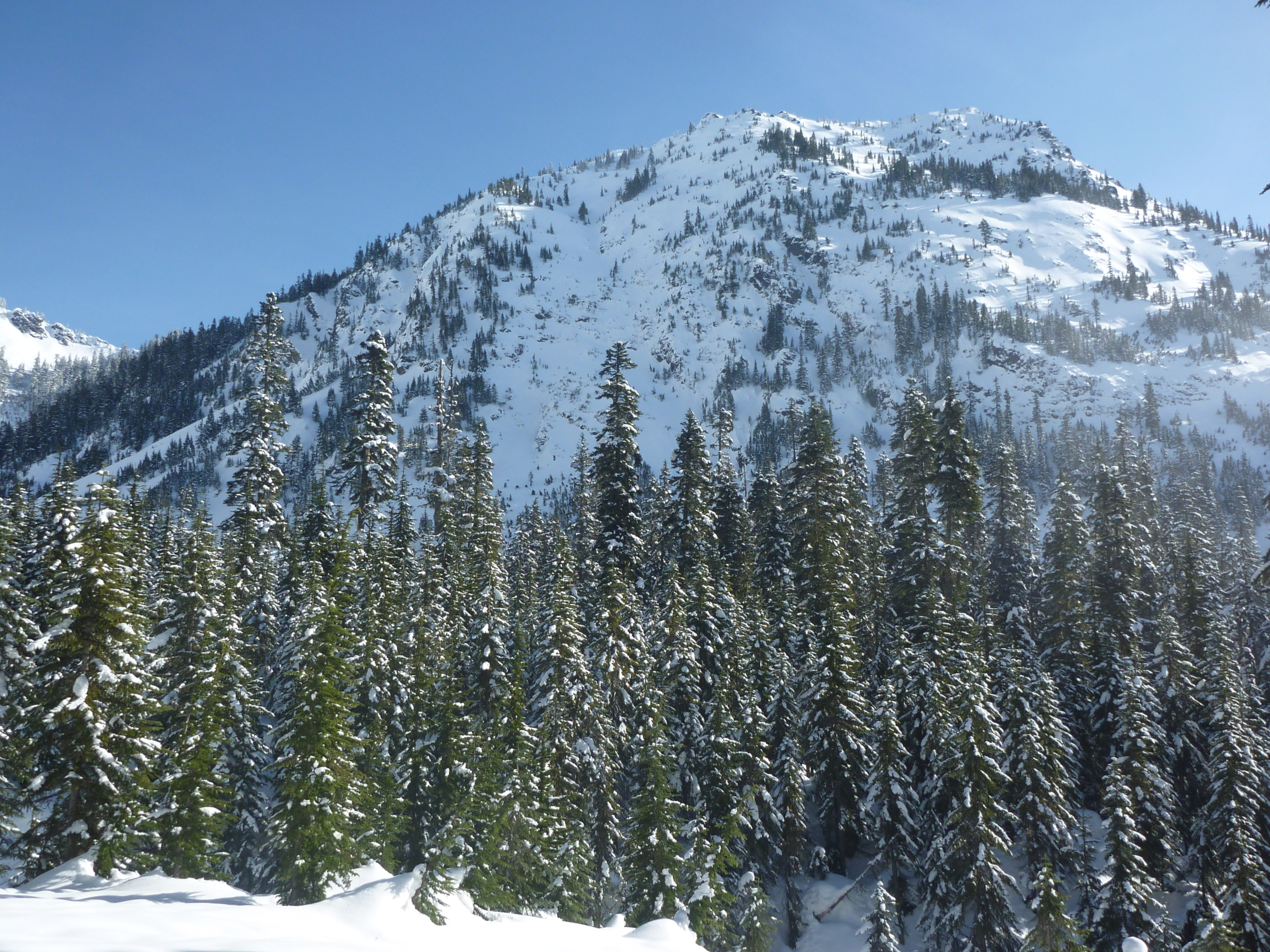 Kendall Peak in Washington state